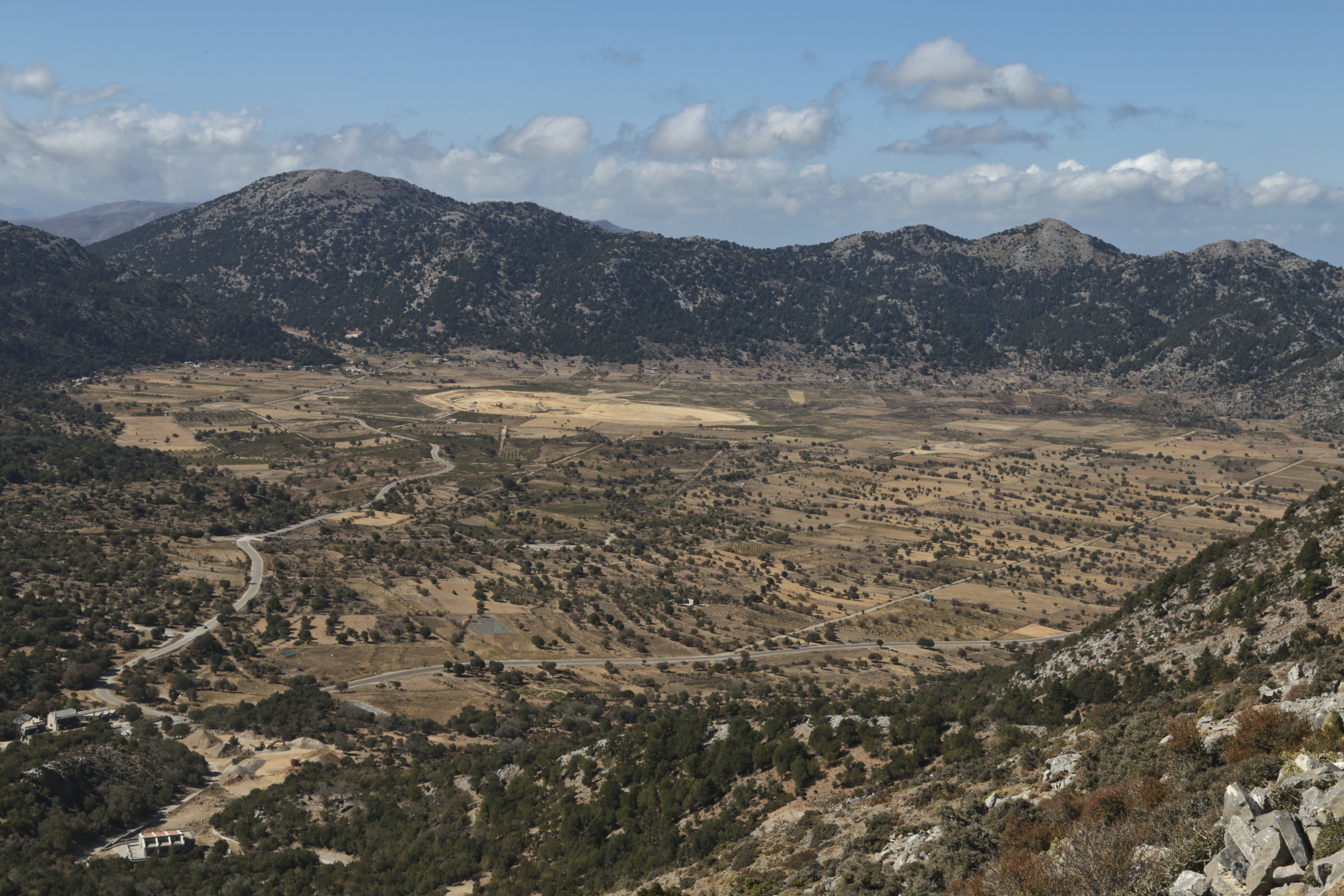 The Omalos Plateau in the Levka Ori mountains on the Greek island Crete.